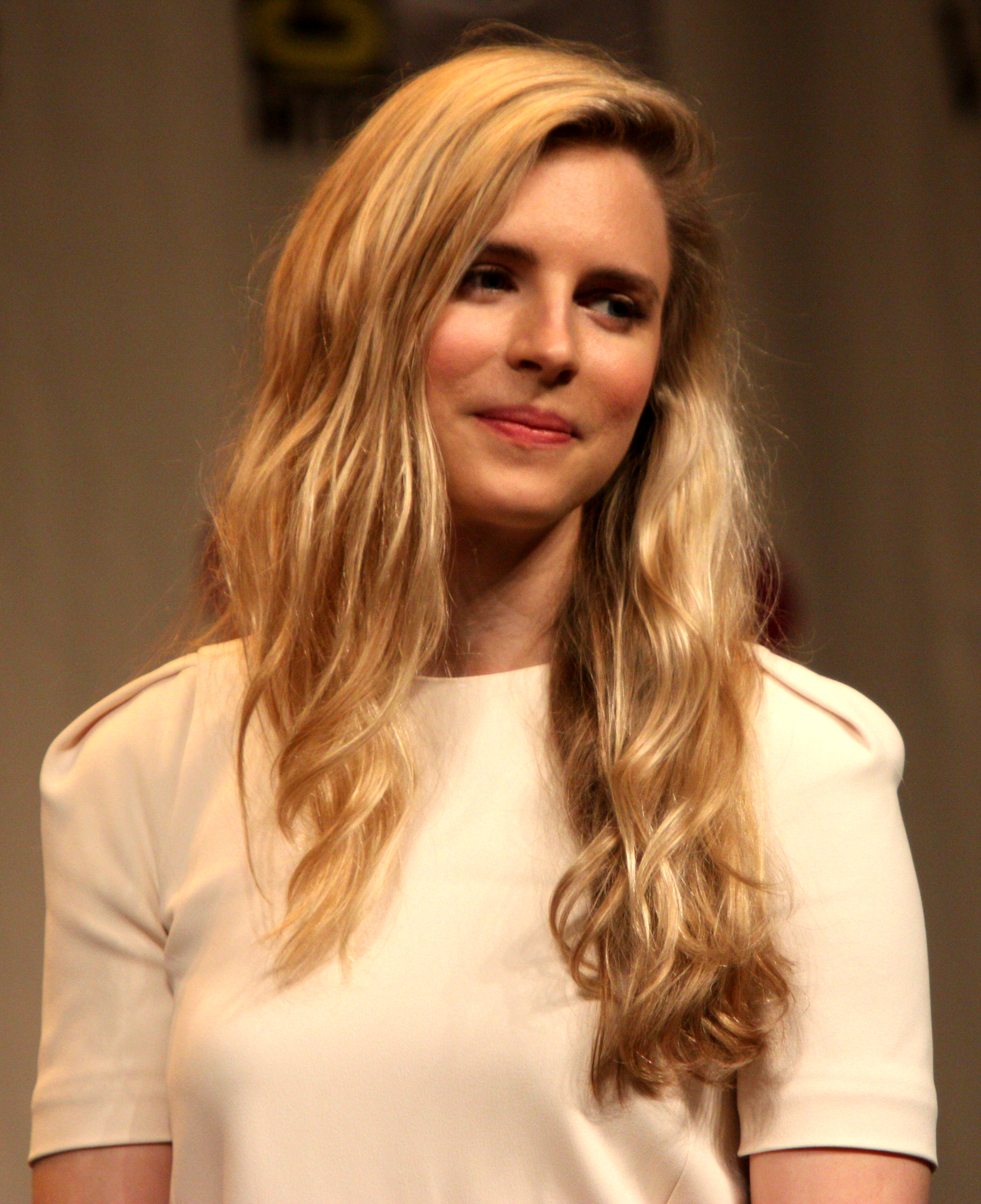 Brit Marling speaking at Wondercon 2012 in Anaheim, California on March 17, 2012.